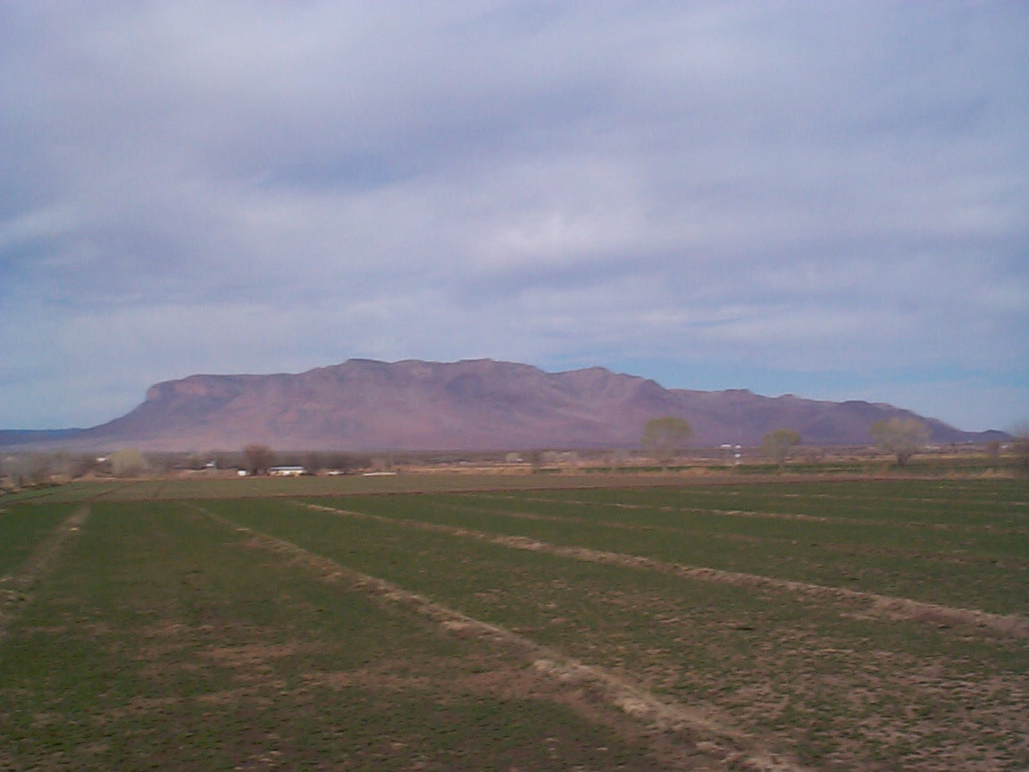 El Pajarito, a familiar sight for those who dwell in Dublán.